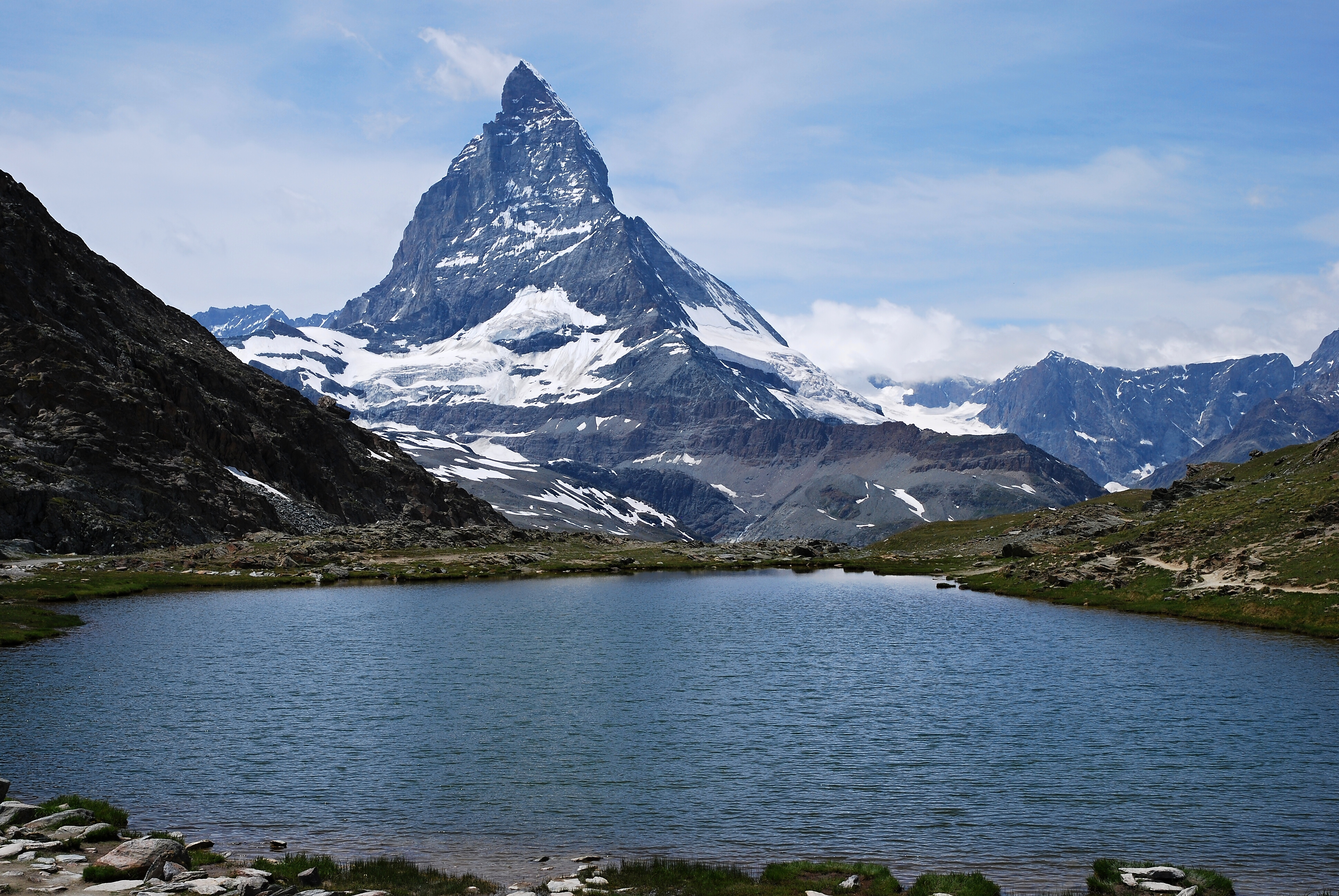 Riffelsee a Matterhorn